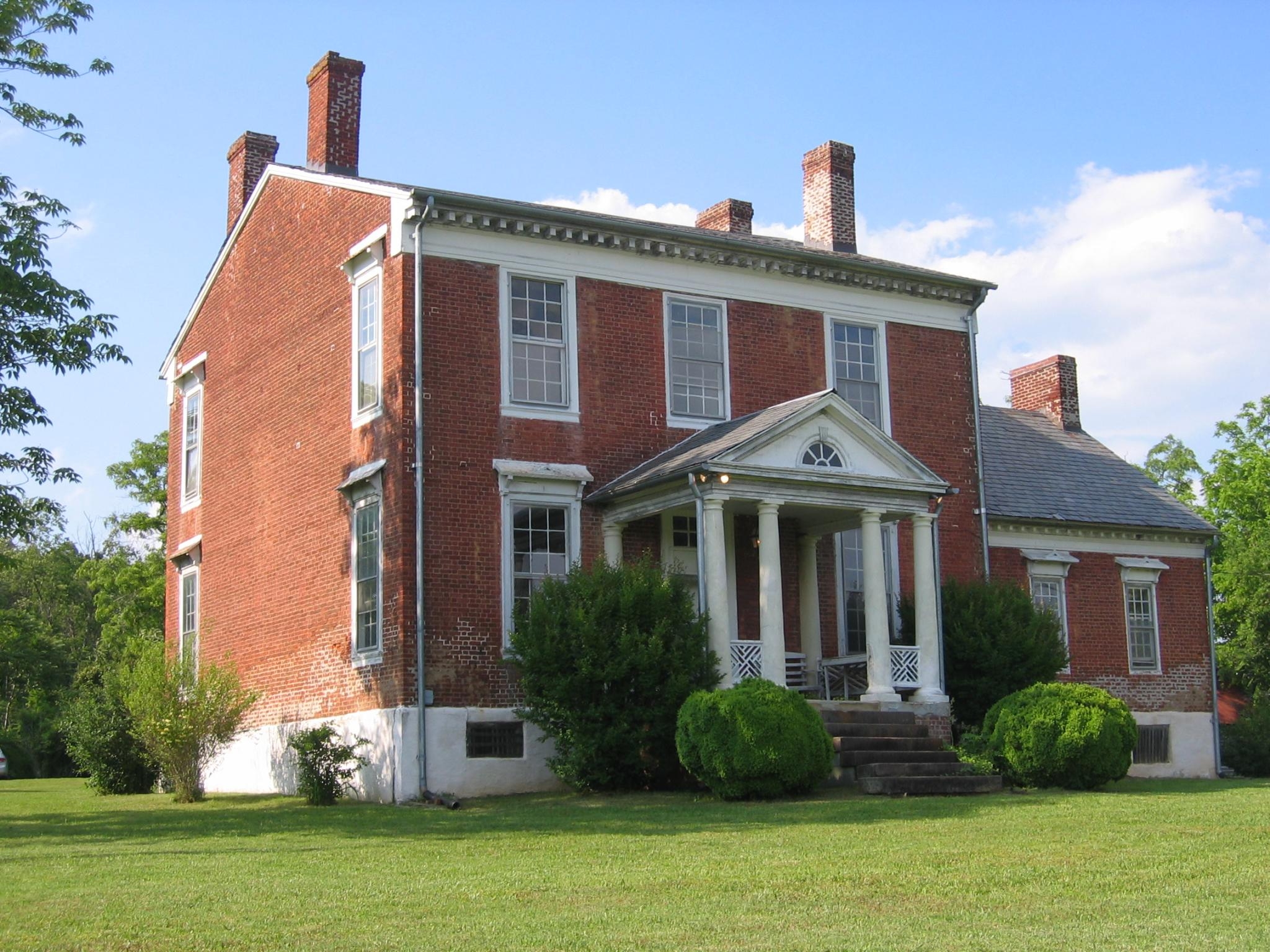 A view of the south facade of Montezuma, a 1790 plantation home in Norwood, Nelson County, Virginia.